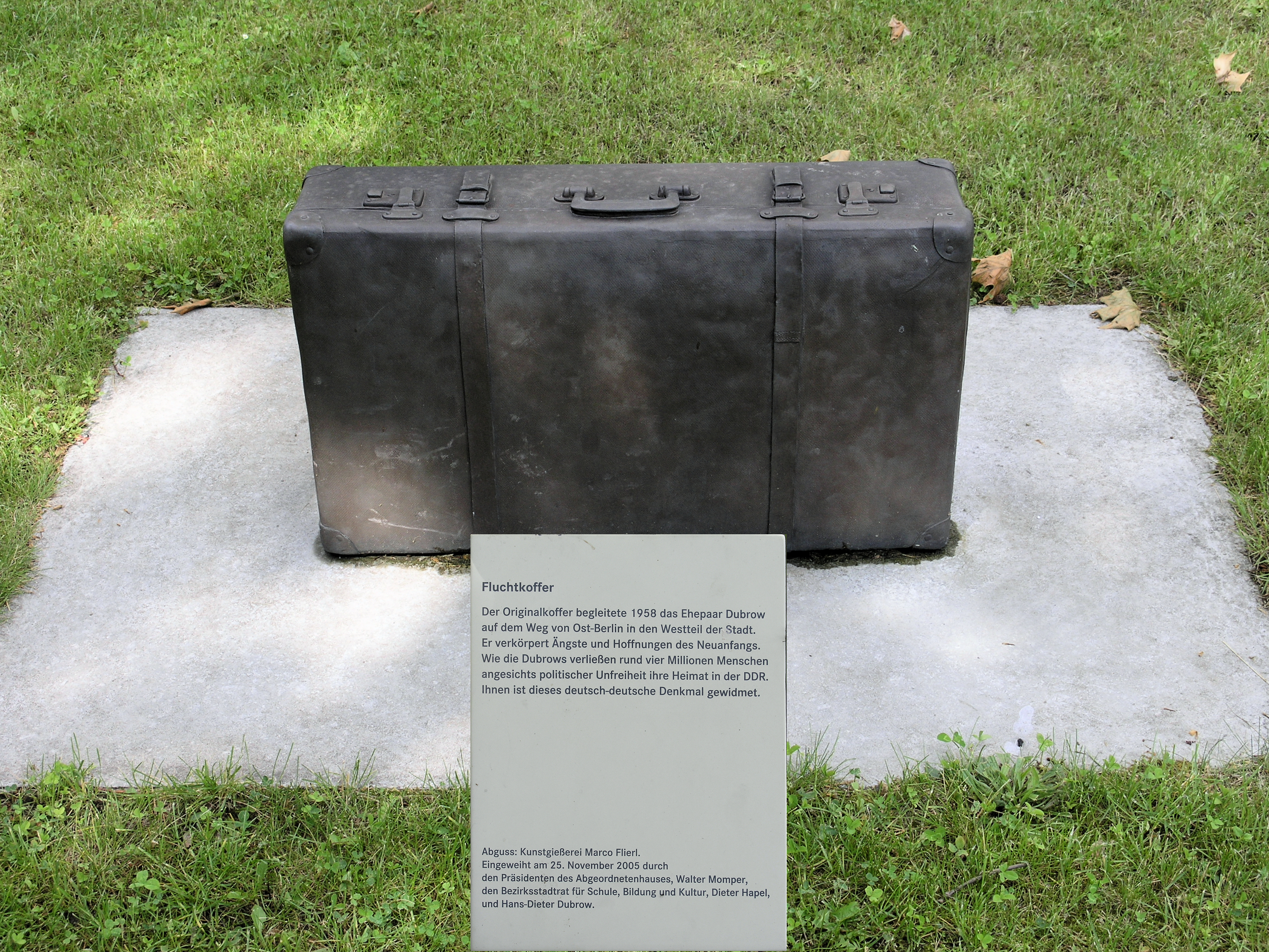 Memorial plaque, Koffer vor dem Notaufnahmelager Marienfelde, Marienfelder Allee 66, Berlin-Marienfelde, Germany Koordinate:52°25′14″N 13°22′6″E / 52.42056°N 13.36833°E